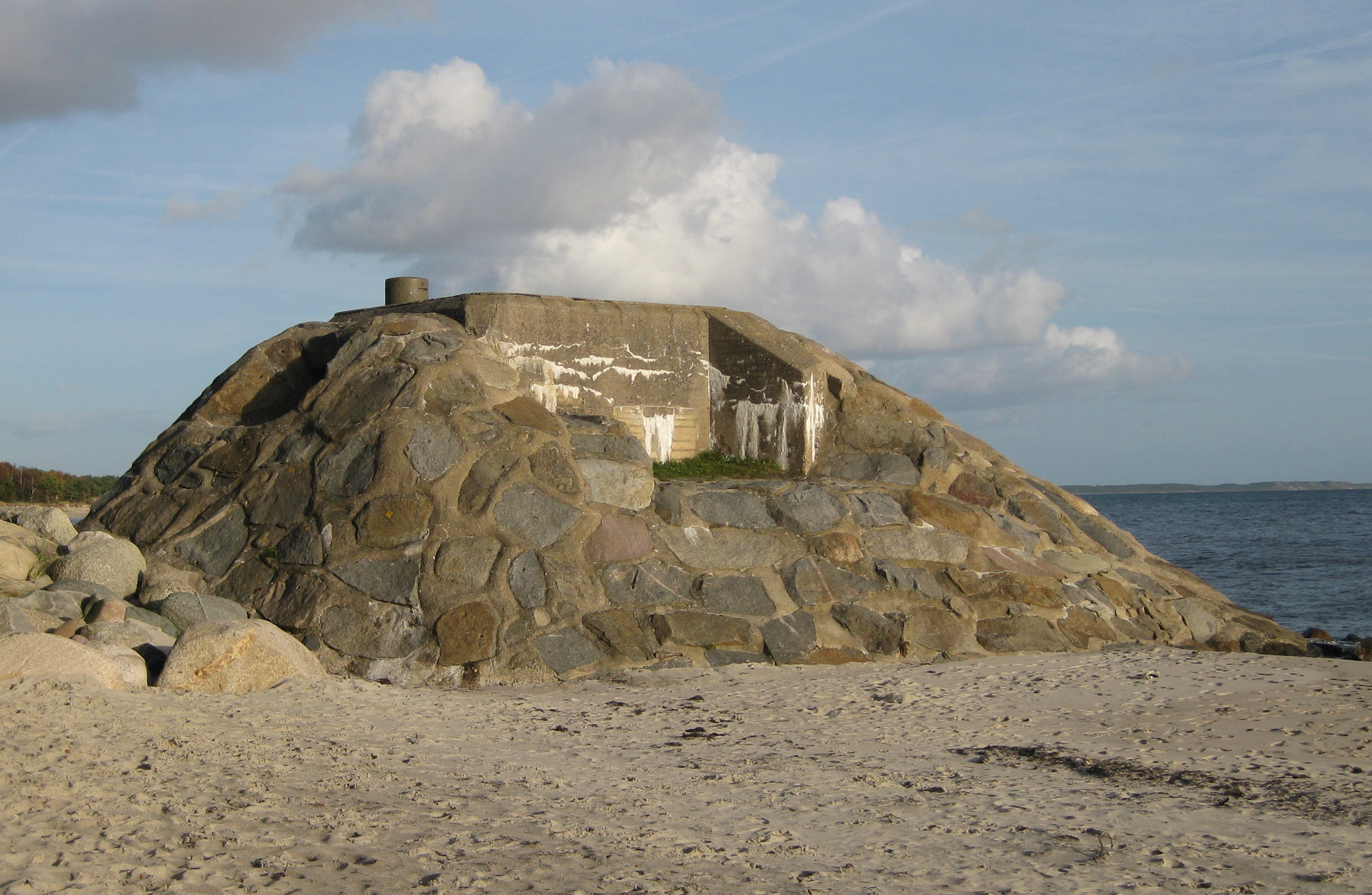 World war II bunker west of Ystad in Skåne, Sweden.